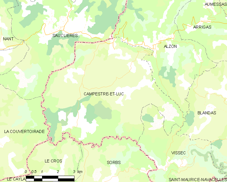 Map commune FR insee code 30064.png - Campestre-et-Luc